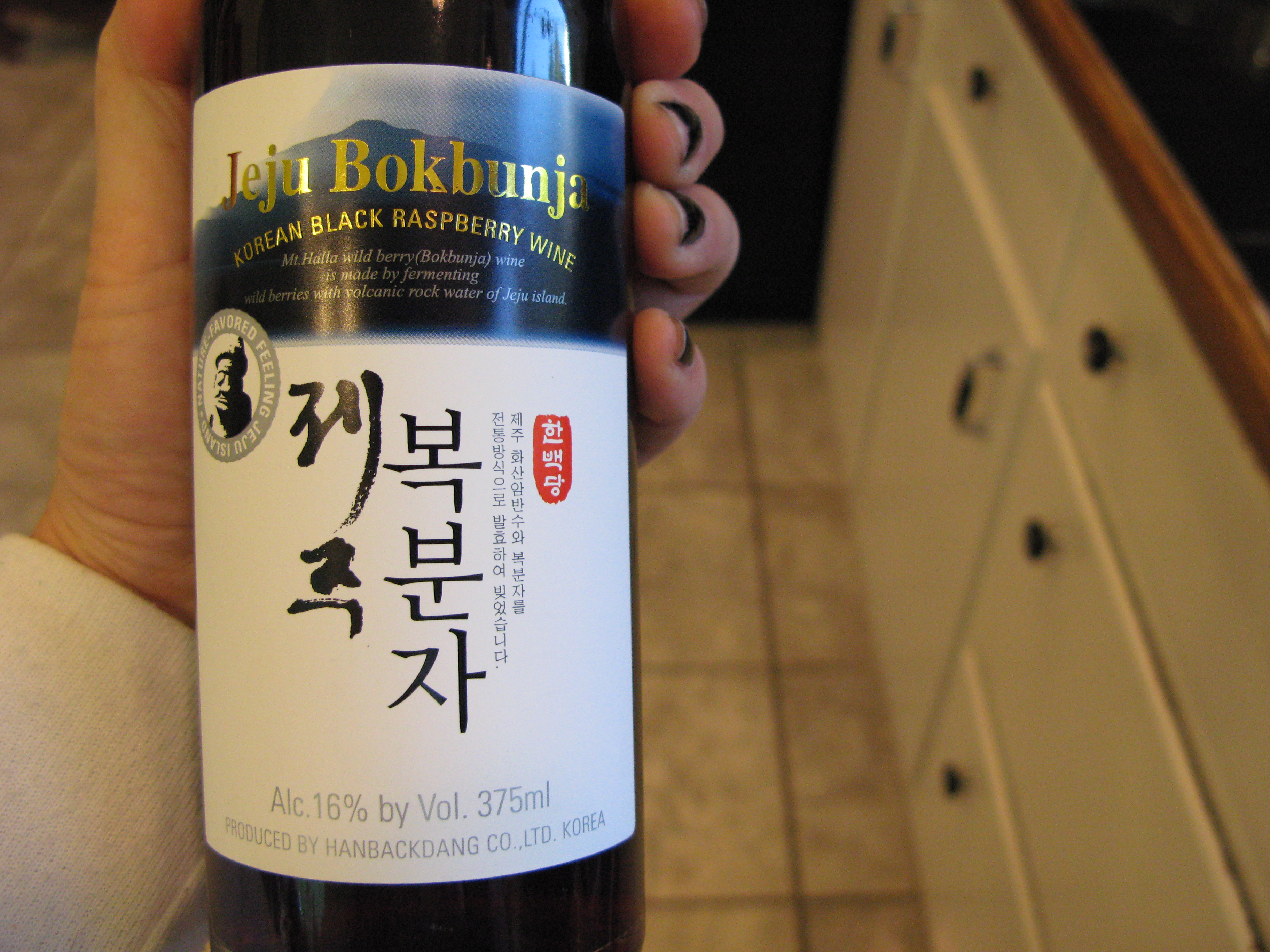 BokBunJa: Korean black raspberry wine